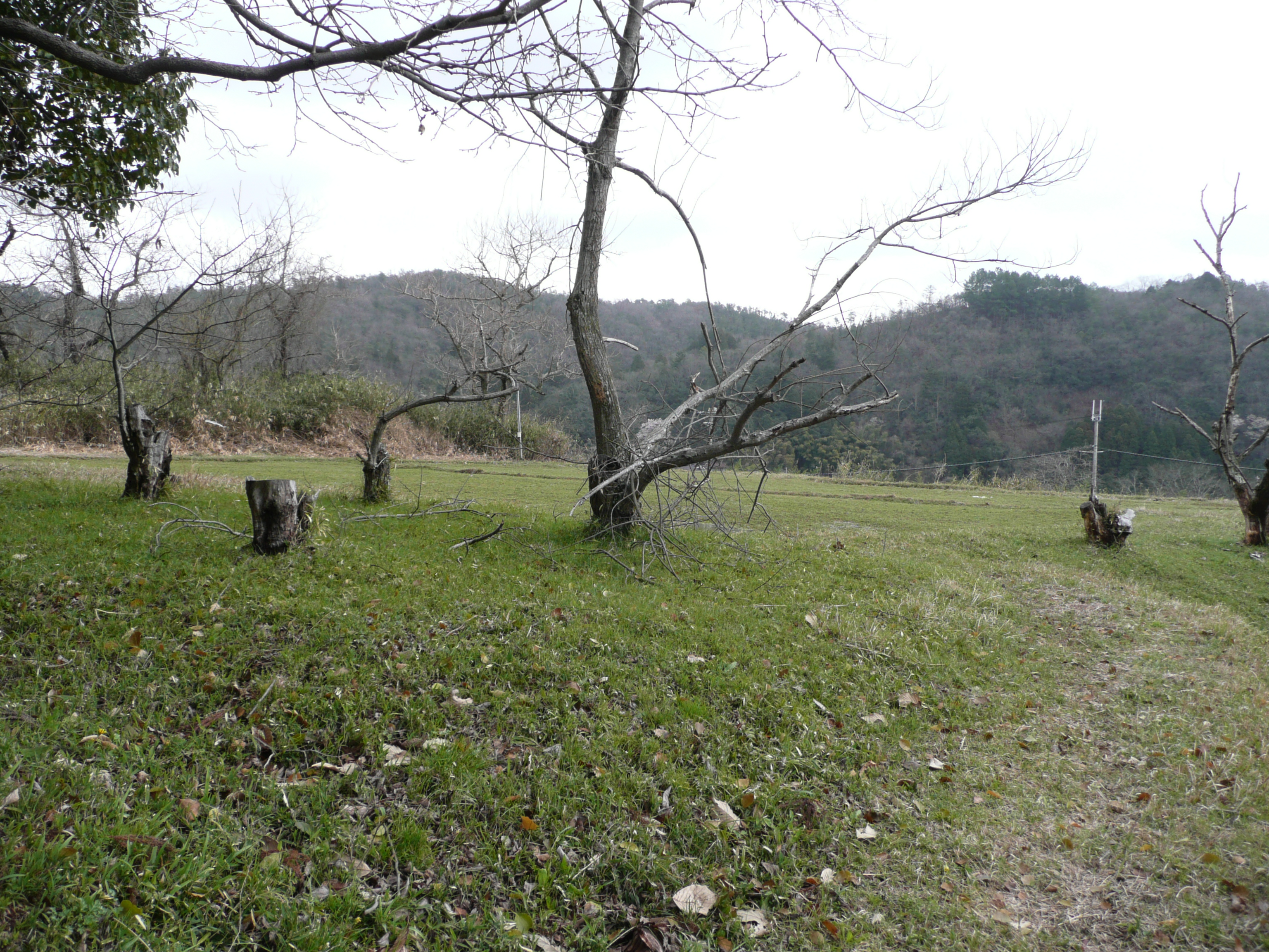 佐用城の本丸跡